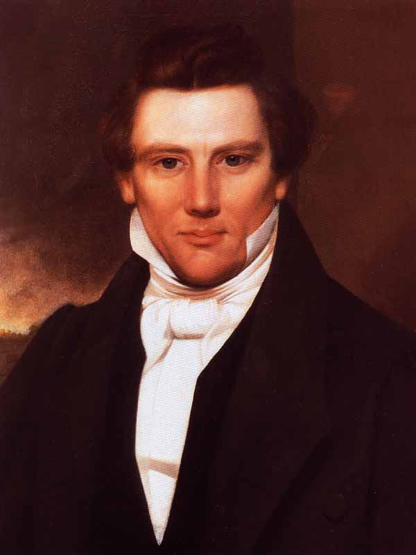 Joseph Smith, Jr.